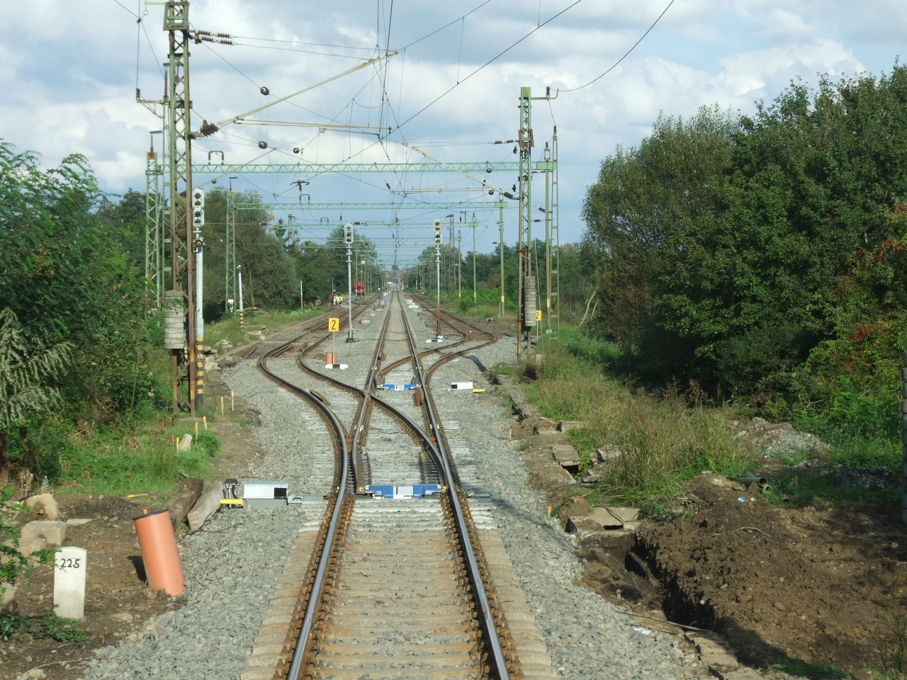 Taszár railway station after the 2014 partial reconstruction